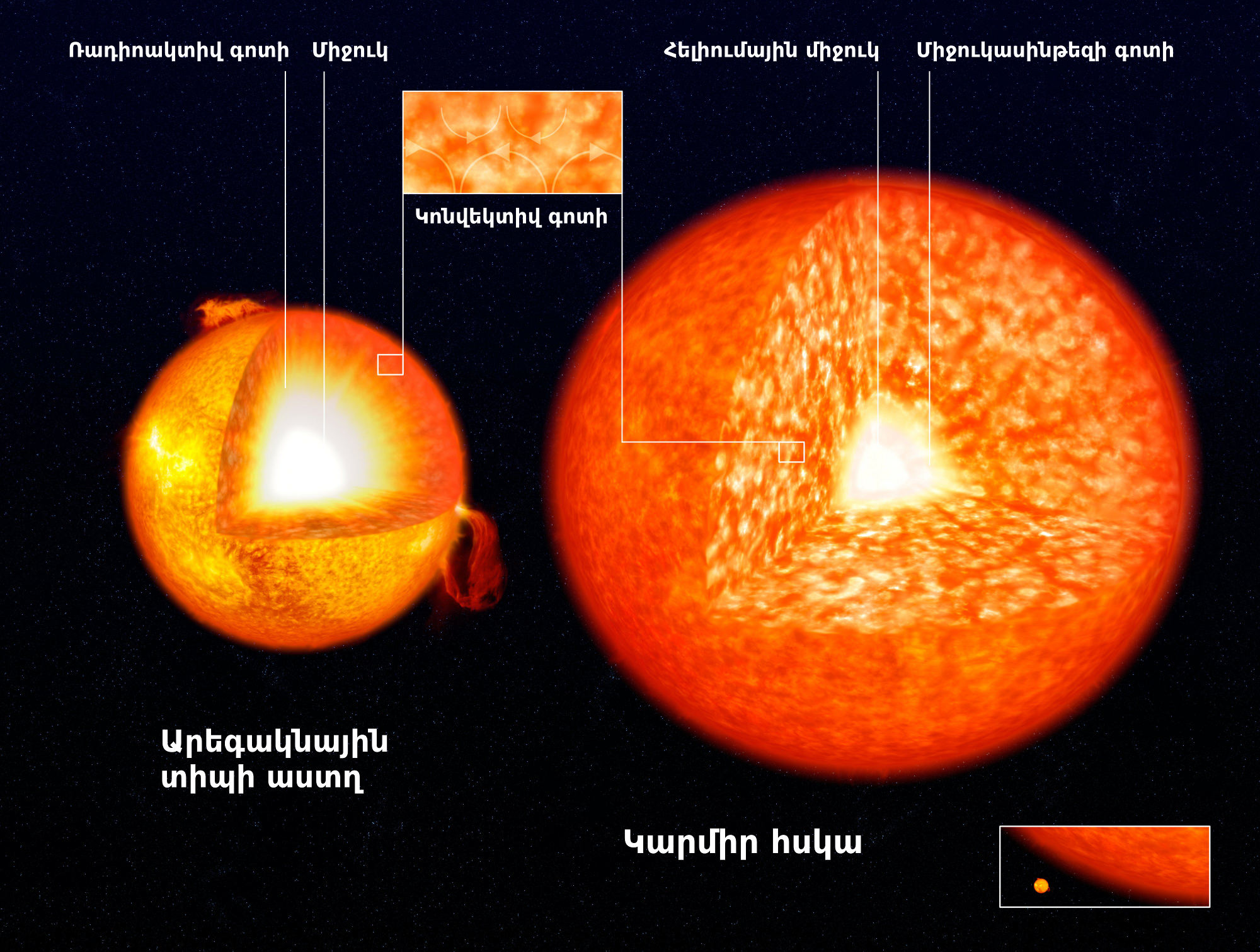 Artist's impression of the structure of a solar-like star and a red giant.